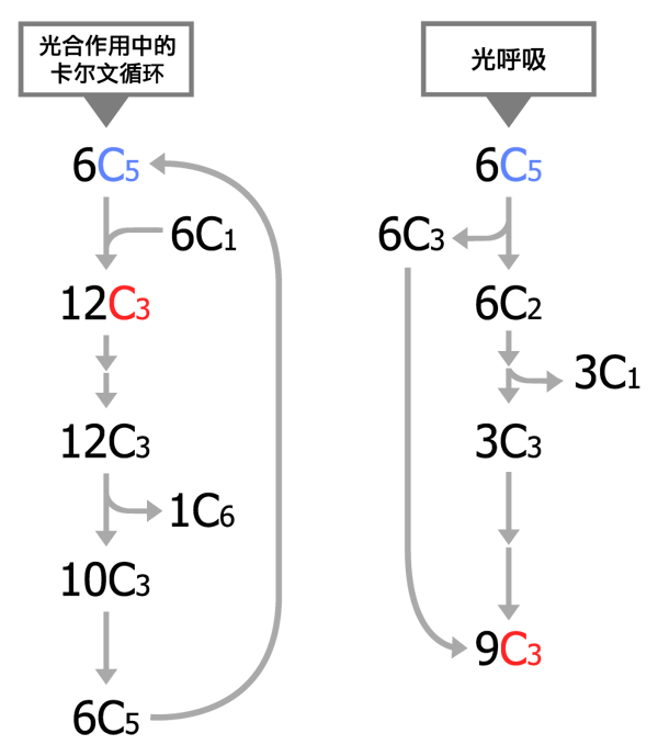 Carbon flow in Photosynthesis and Photorespiation